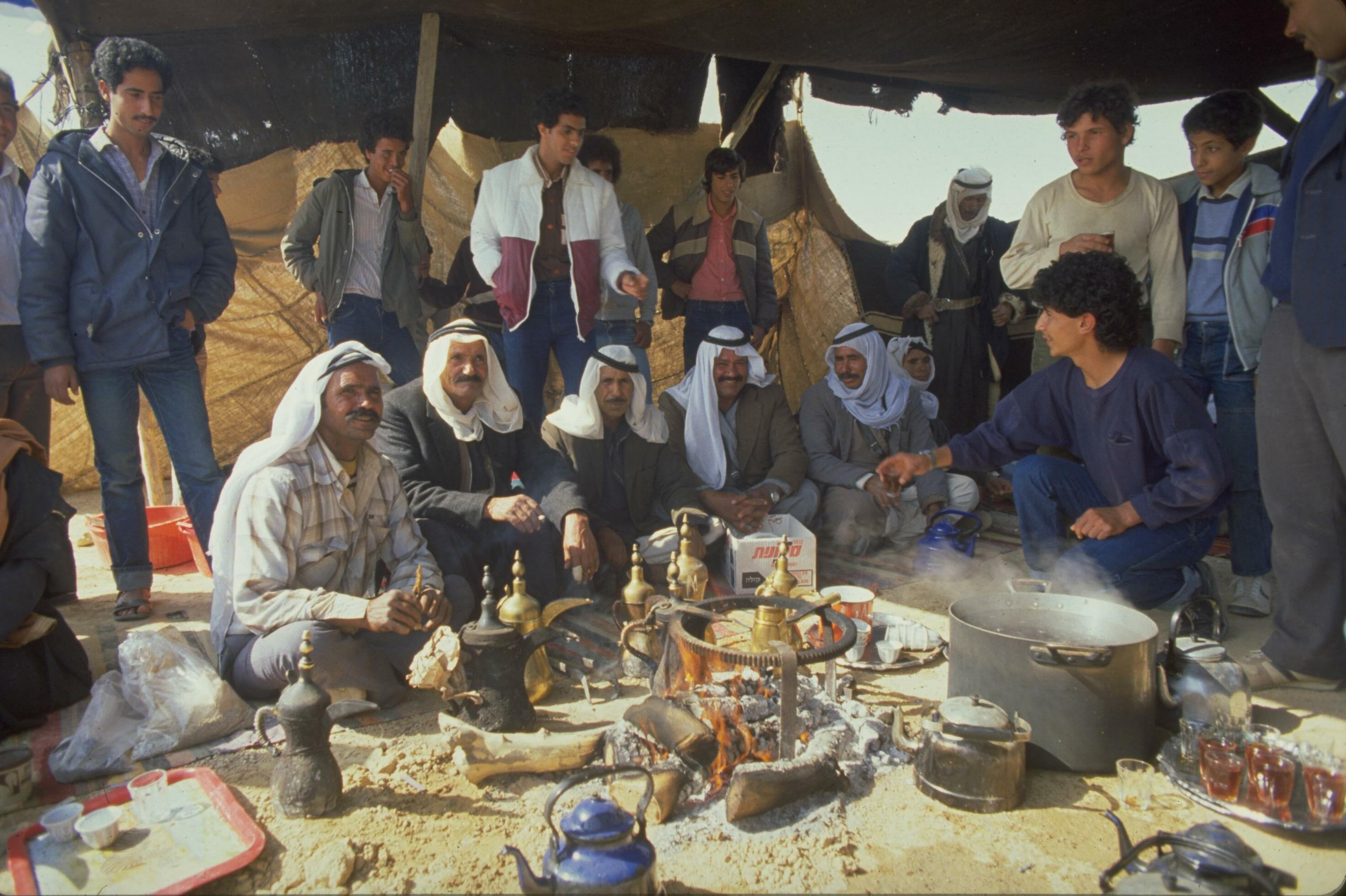 A Bedouin celebration inside a tent at Kseife, a Bedouin village. inside a tent at Kseife, a Bedouin village. חאפלה בדואית, בתוך אוהל, ביישוב הבדואי "כסייפה".